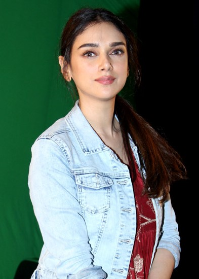 Aditi Rao Hydari snapped promoting her film Bhoomi.